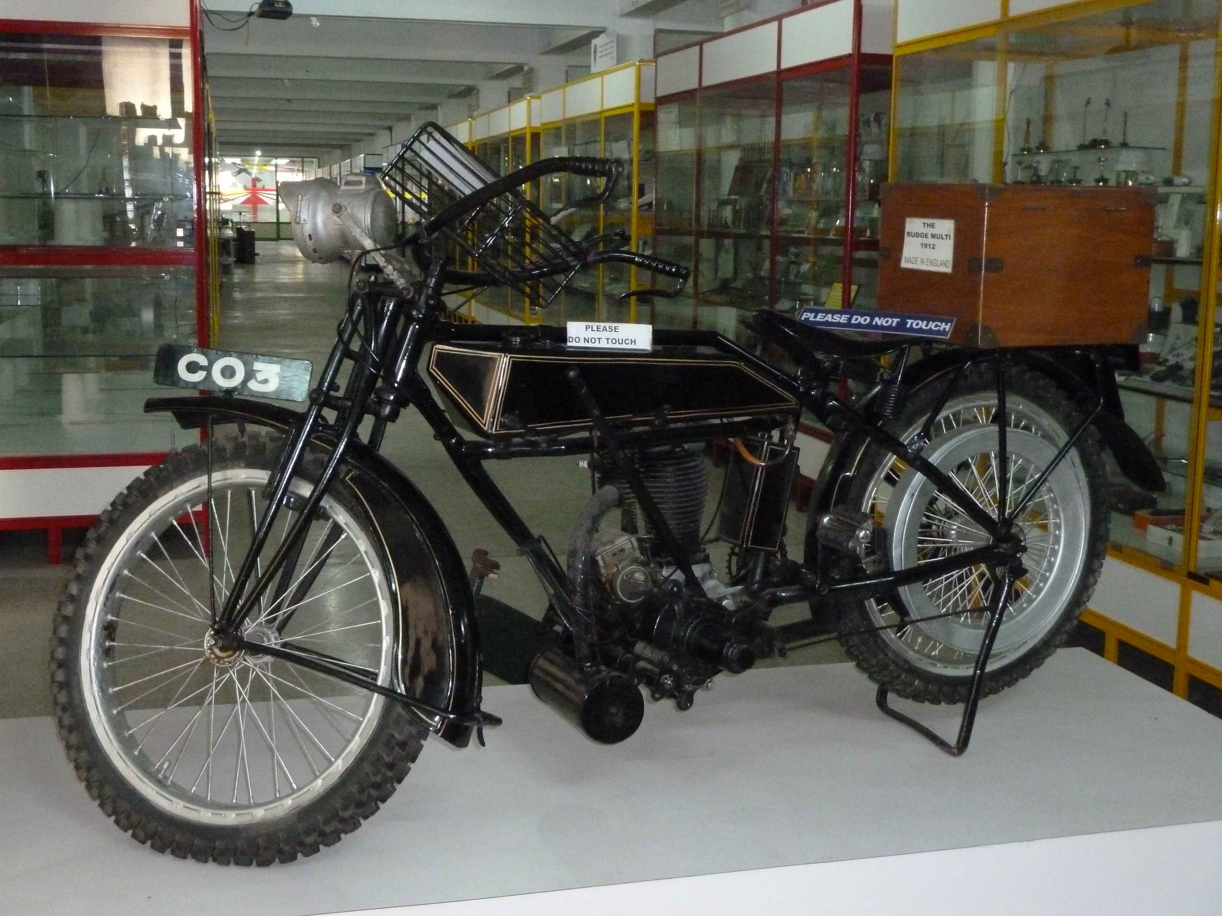 This vehicle , The Ridge Multi 1912 was used by G.D.Naidu to learn how to assemble from an British Officer.